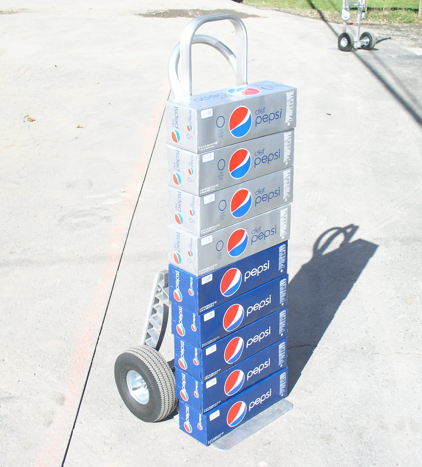 Pepsi Cola and Diet Pepsi soda delivery